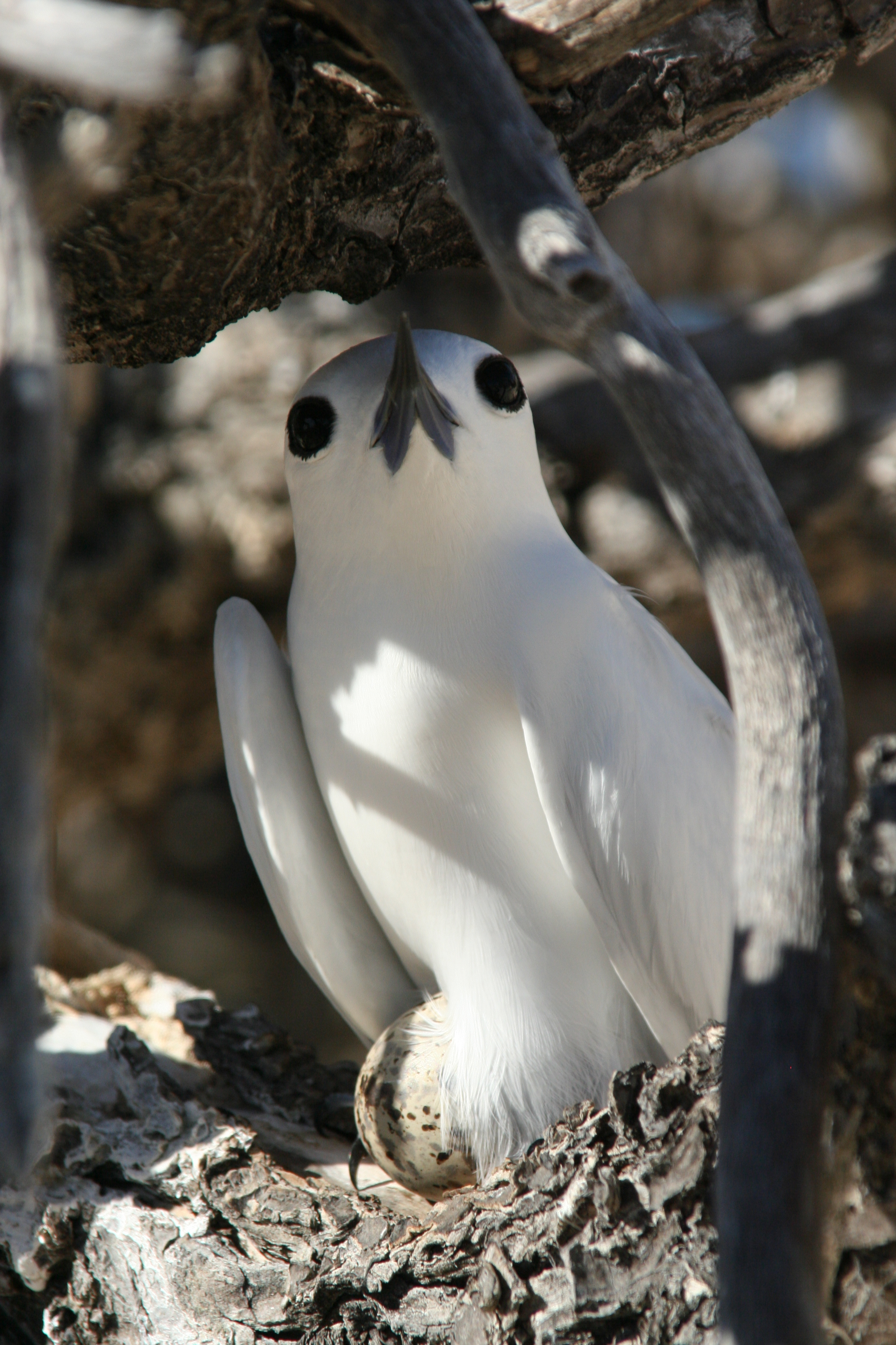 White Tern Gygis alba incubating egg on branch